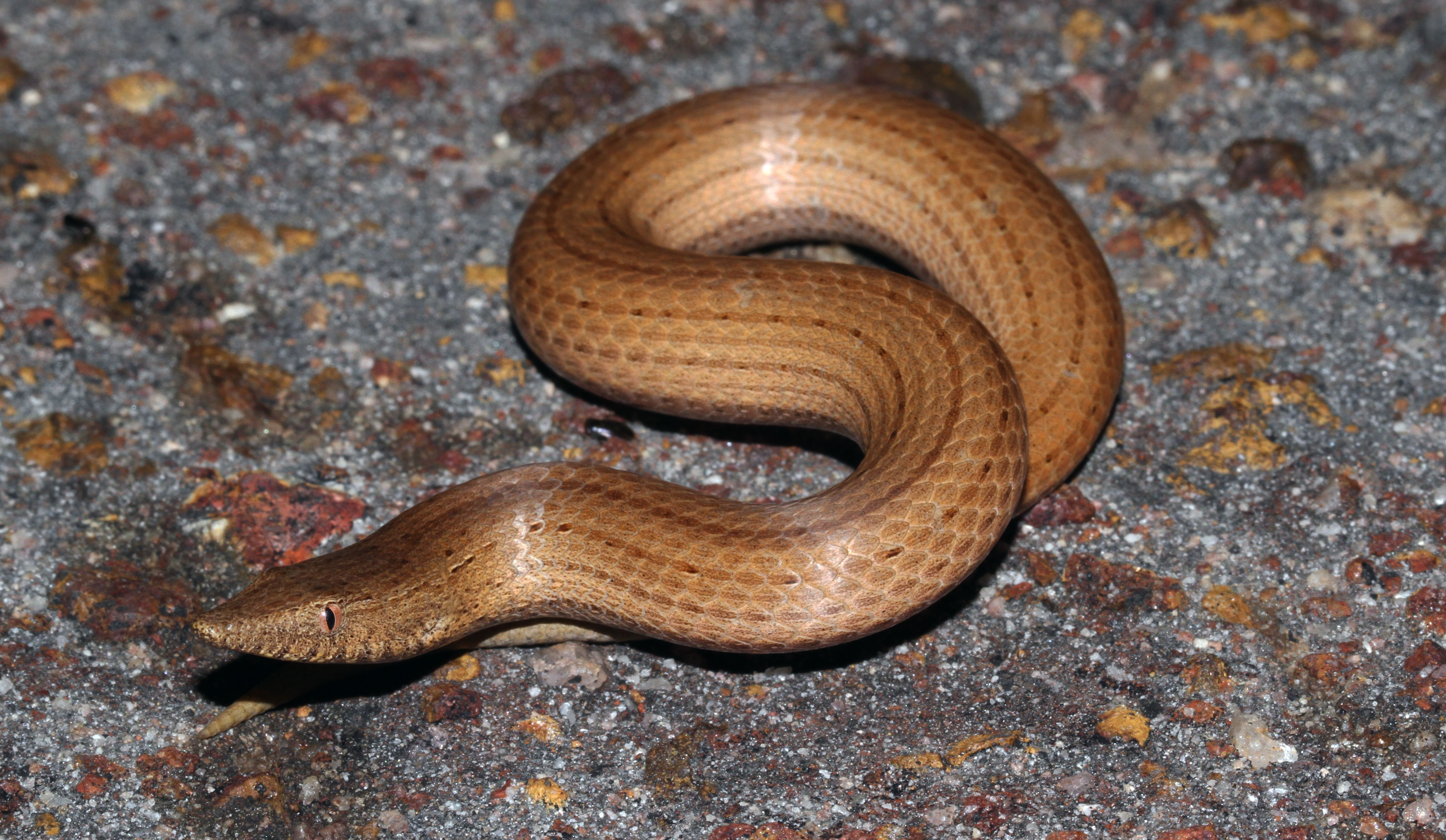 Burton's legless lizard on rocky ground, Kakadu, Northern Territory, Australia.